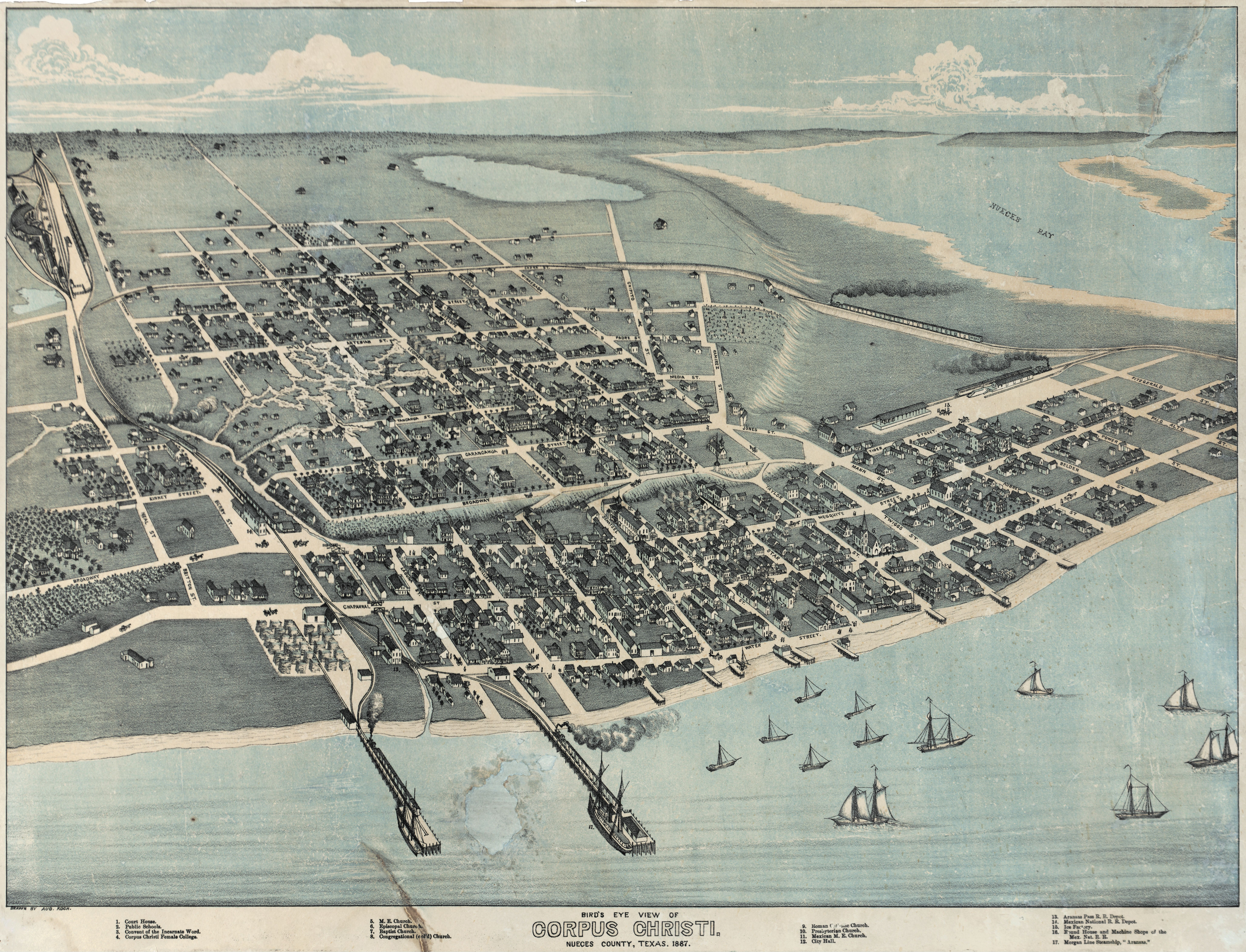 Corpus Christi, Texas in 1887. Bird's Eye View of Corpus Christi. Nueces County, Texas. 1887, 1887. Lithograph, 21 x 28 in. Lithographer unknown. Corpus Christi Public Library.